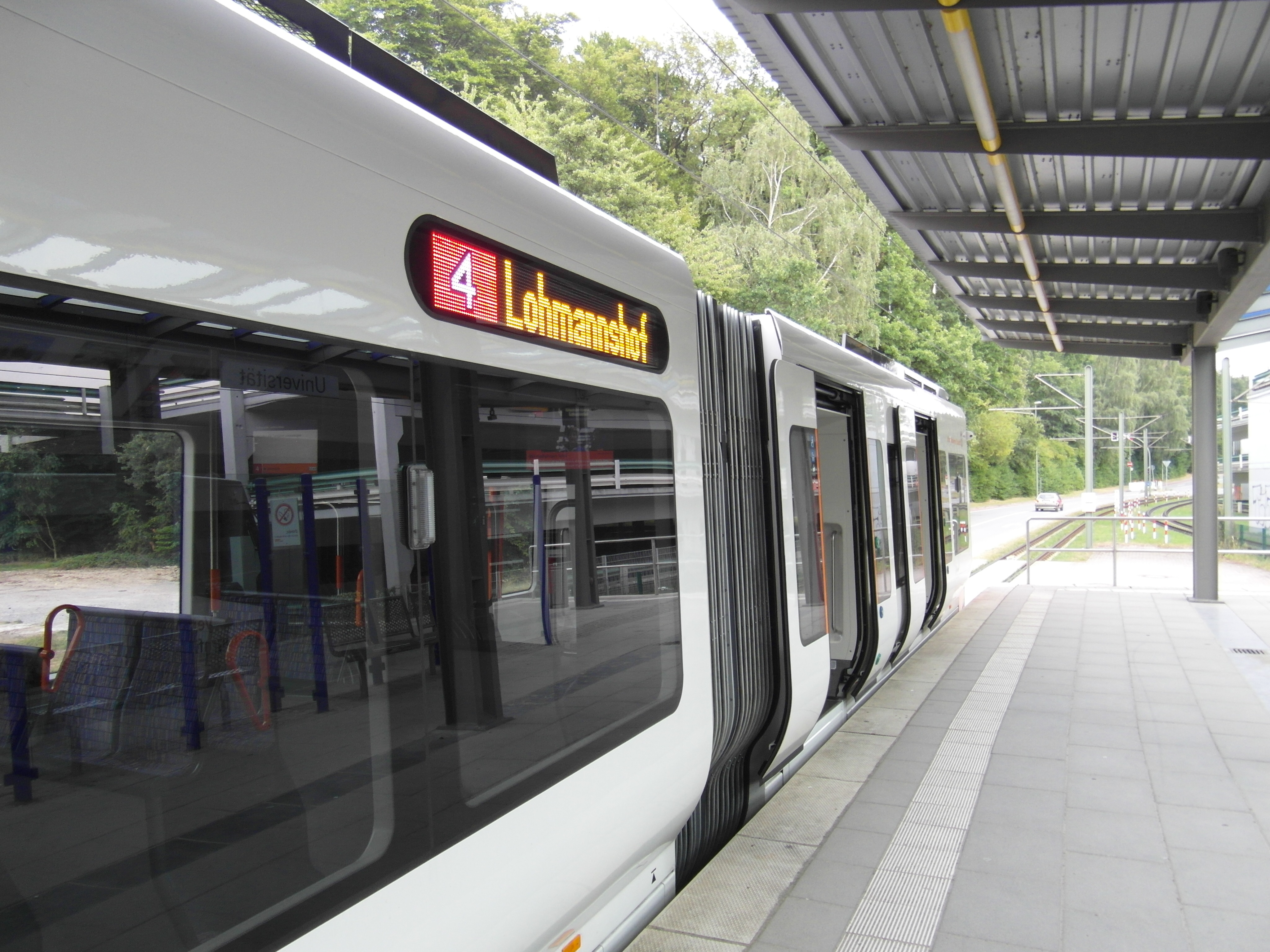 Details of a tram (type GTZ8-B) of Bielefeld's Stadtbahn, Bielefeld, Nordrhein-Westfahlen